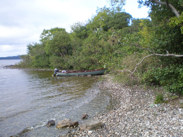 A Landing Beach on Inchagoill This is not the main landing place.